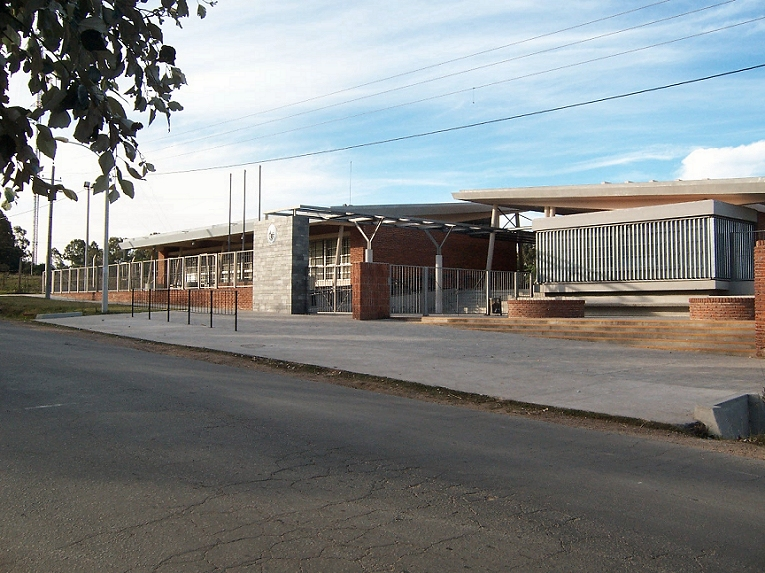 The Public School of Santa Catalina, Montevideo, Uruguay.